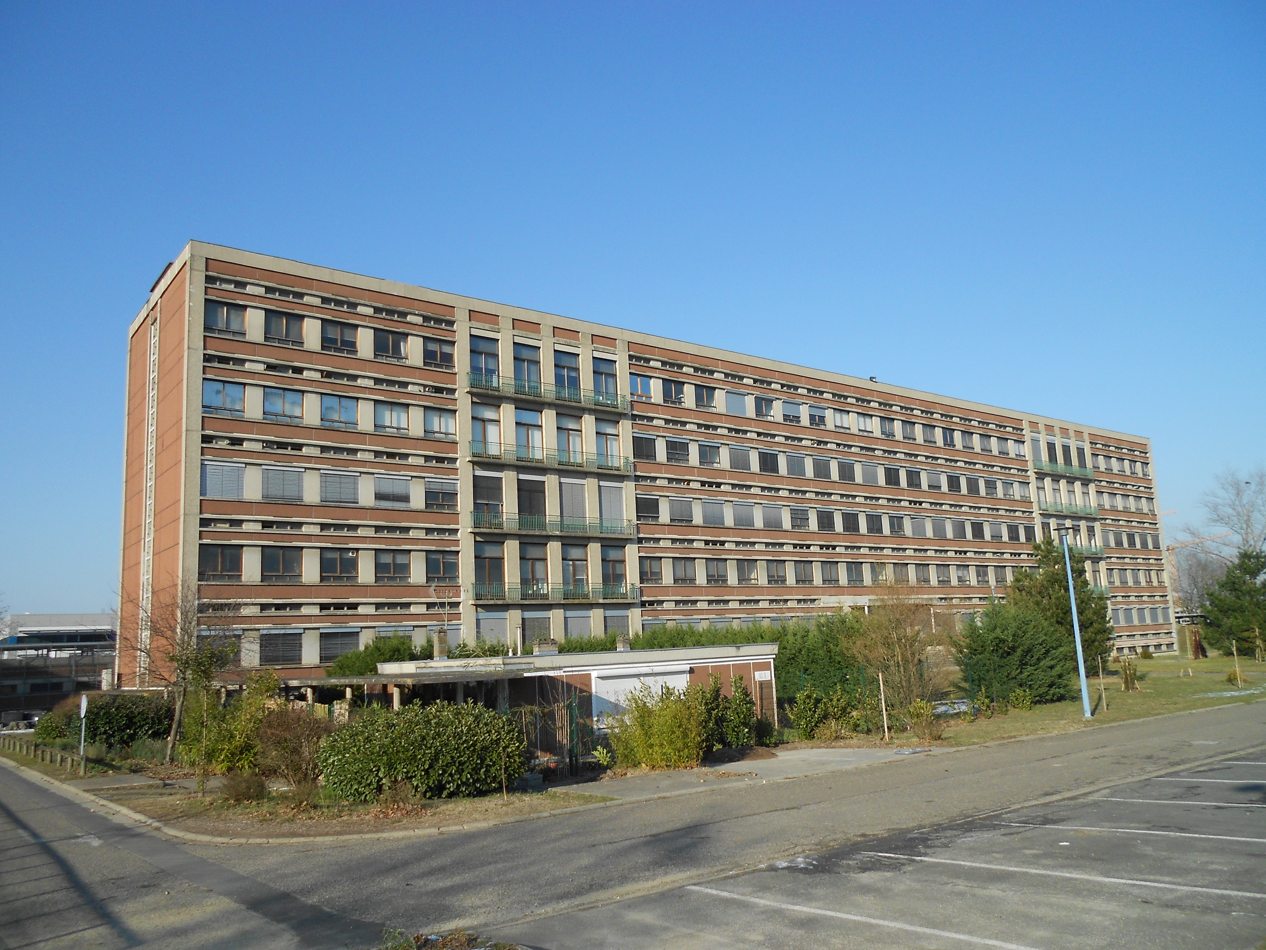 Building B2 (Animal biology) of Bordeaux 1 University in France.